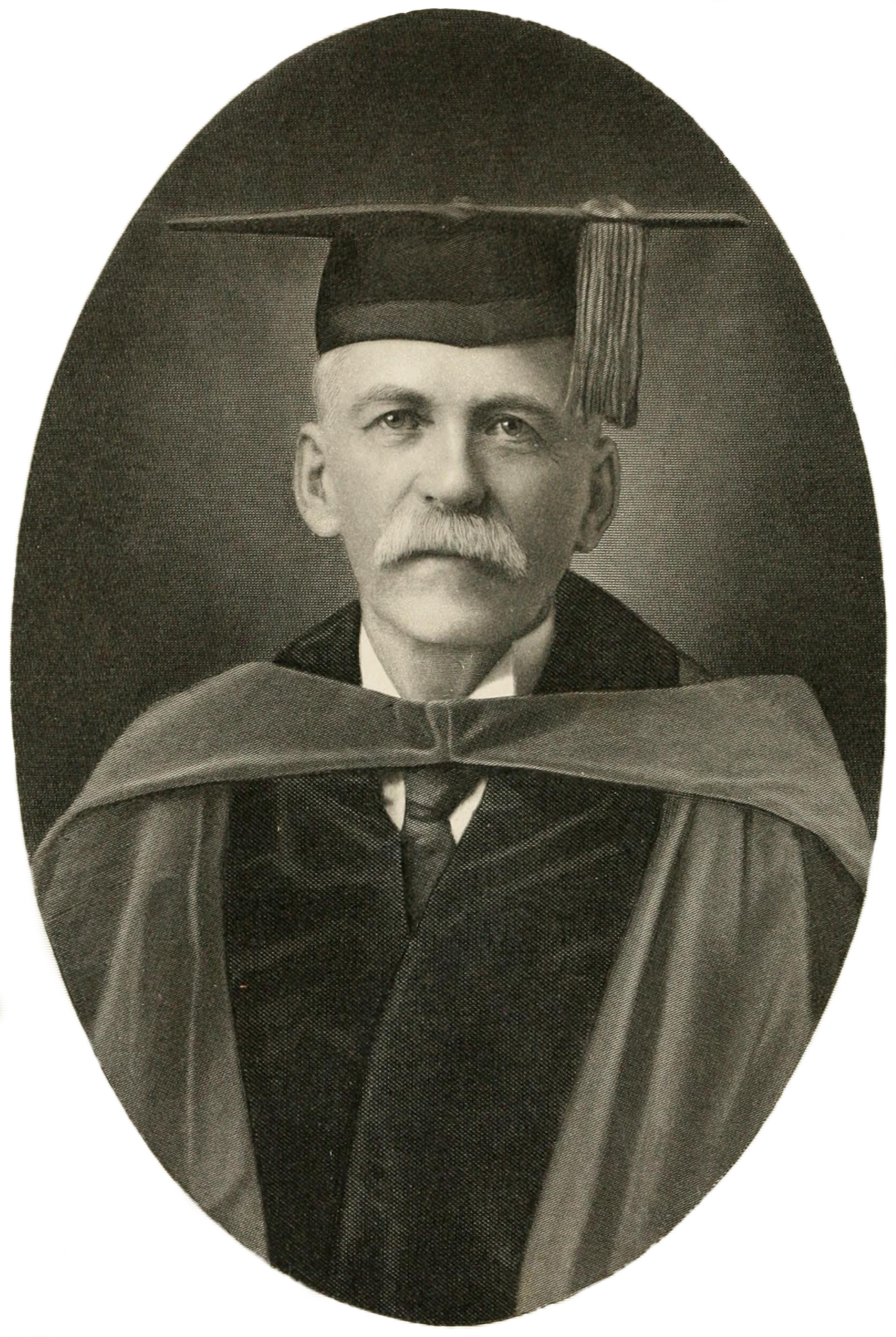 Lyon Gardiner Tyler, American historian and president of the College of William and Mary.